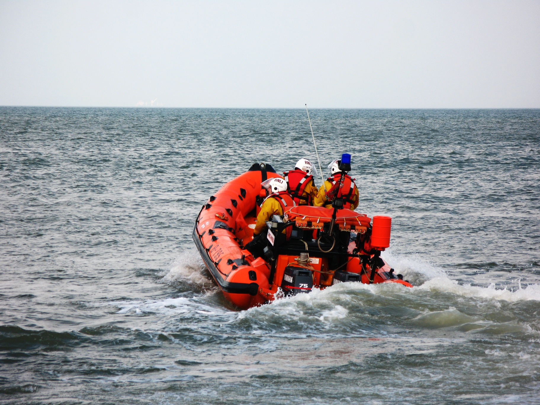 B795 Staines Whitfield, the Burnham-on-Sea Atlantic 75 inshore lifeboat, underway in the Bristol Channel.